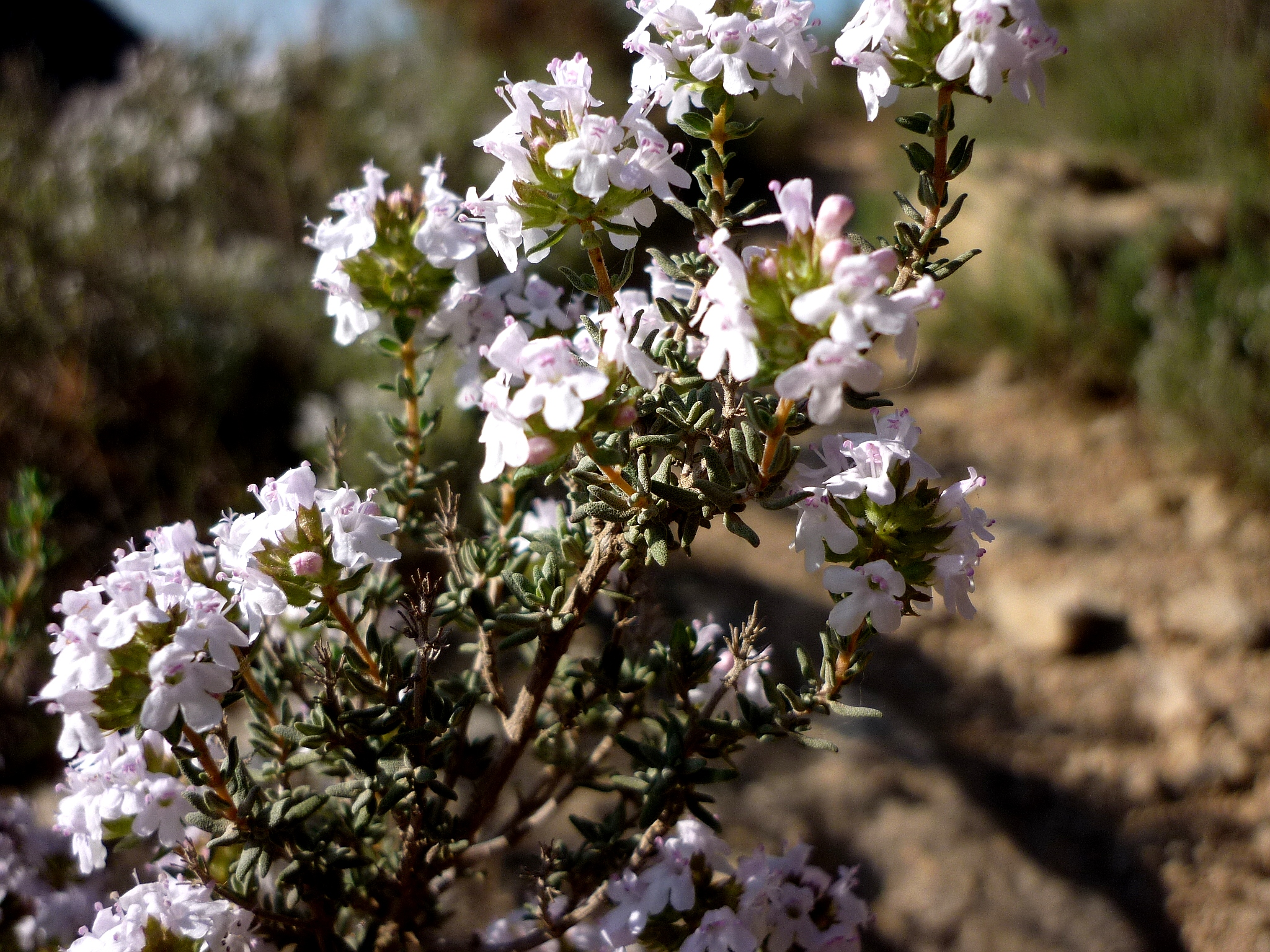 Thymus vulgaris. In Torà (Segarra-Catalunya). To 490 m. altitude